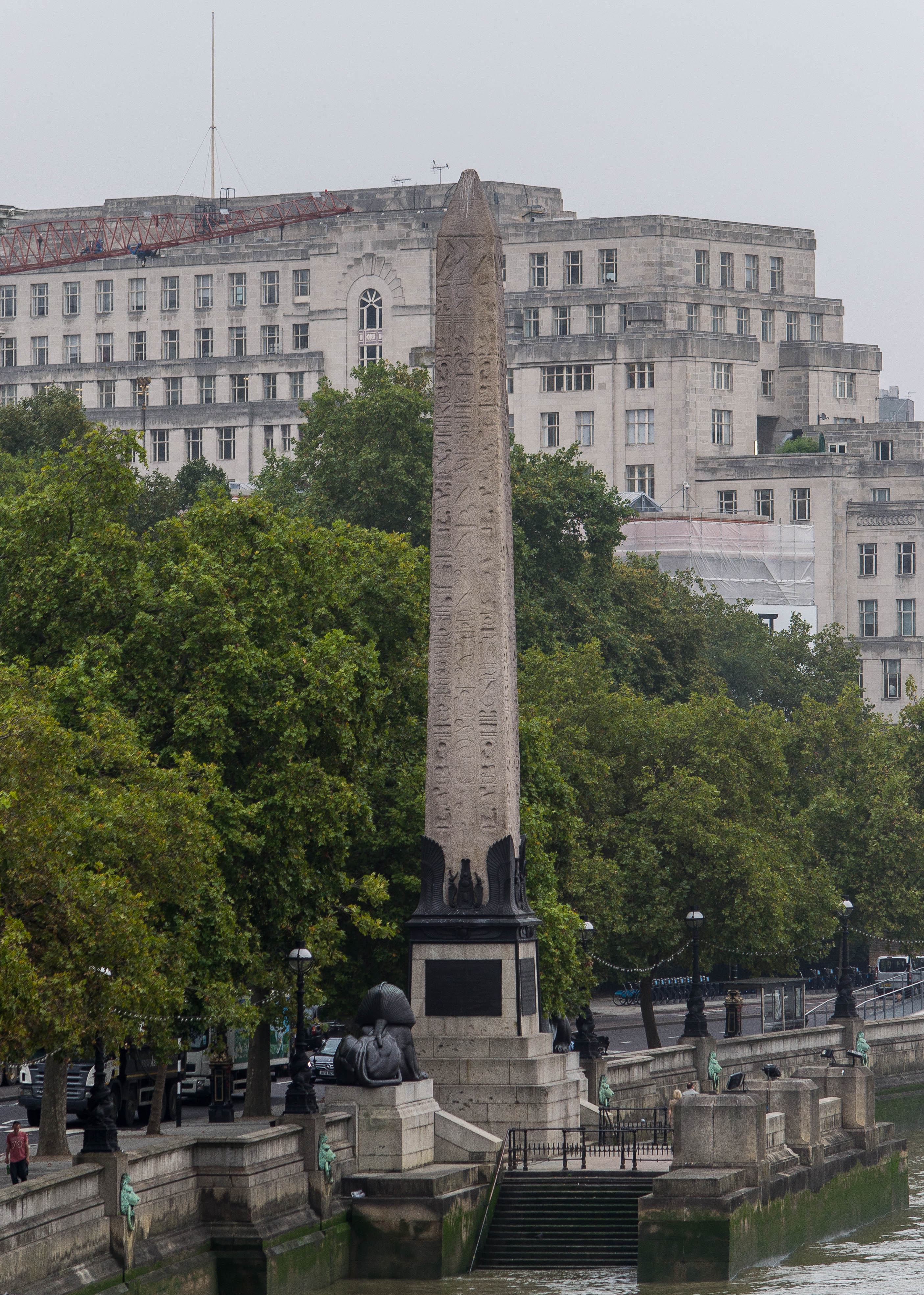 CLEOPATRA'S NEEDLE Wikidata has entry Q729177 with data related to this building.